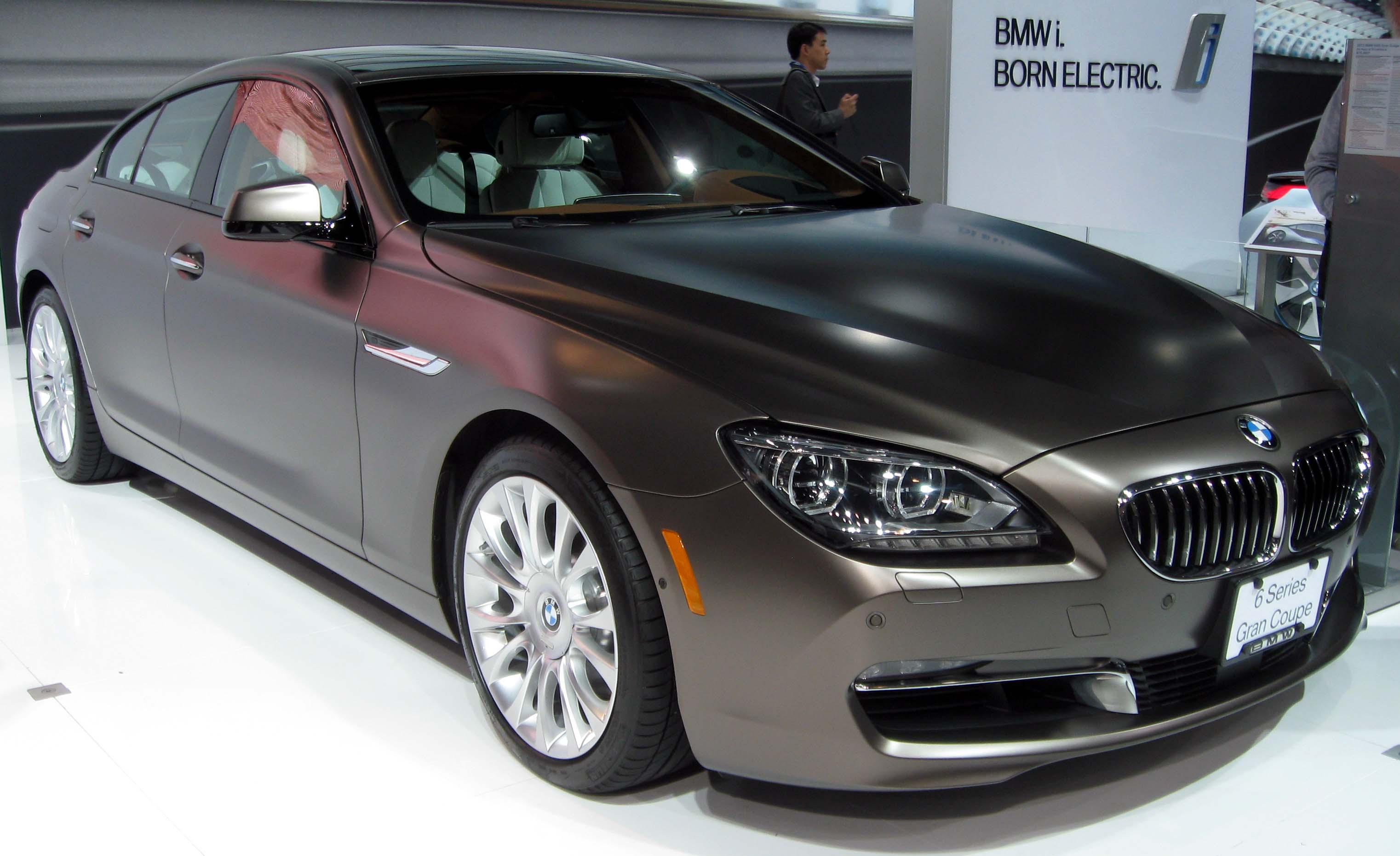 2013 BMW 640i Gran Coupe photographed at the 2012 New York International Auto Show.